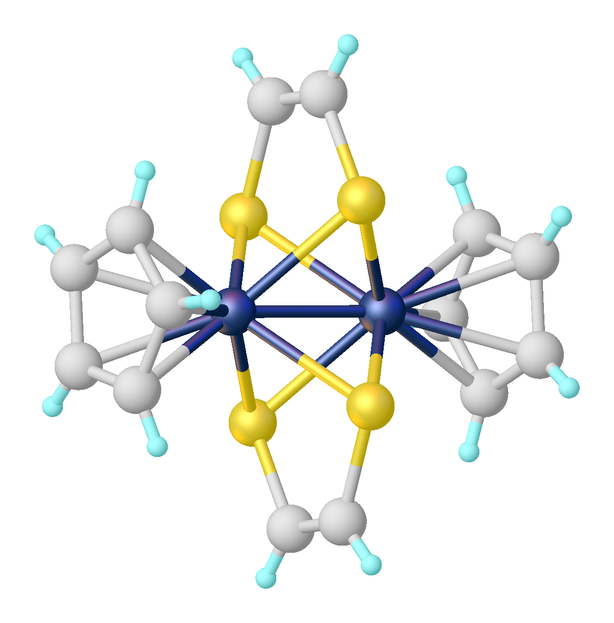 Structure of Cp2Mo2(S2C2H2)2.